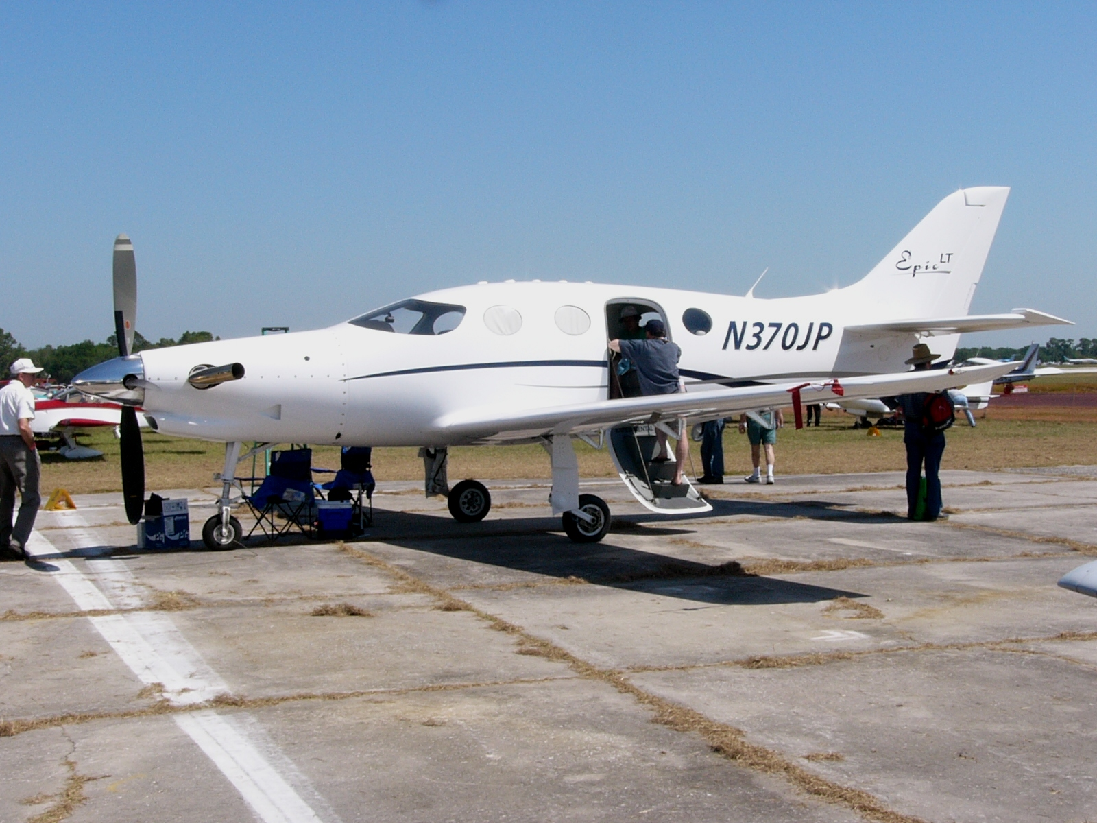 Epic Aircraft LT serial Number 1 at Sun 'n Fun 2006